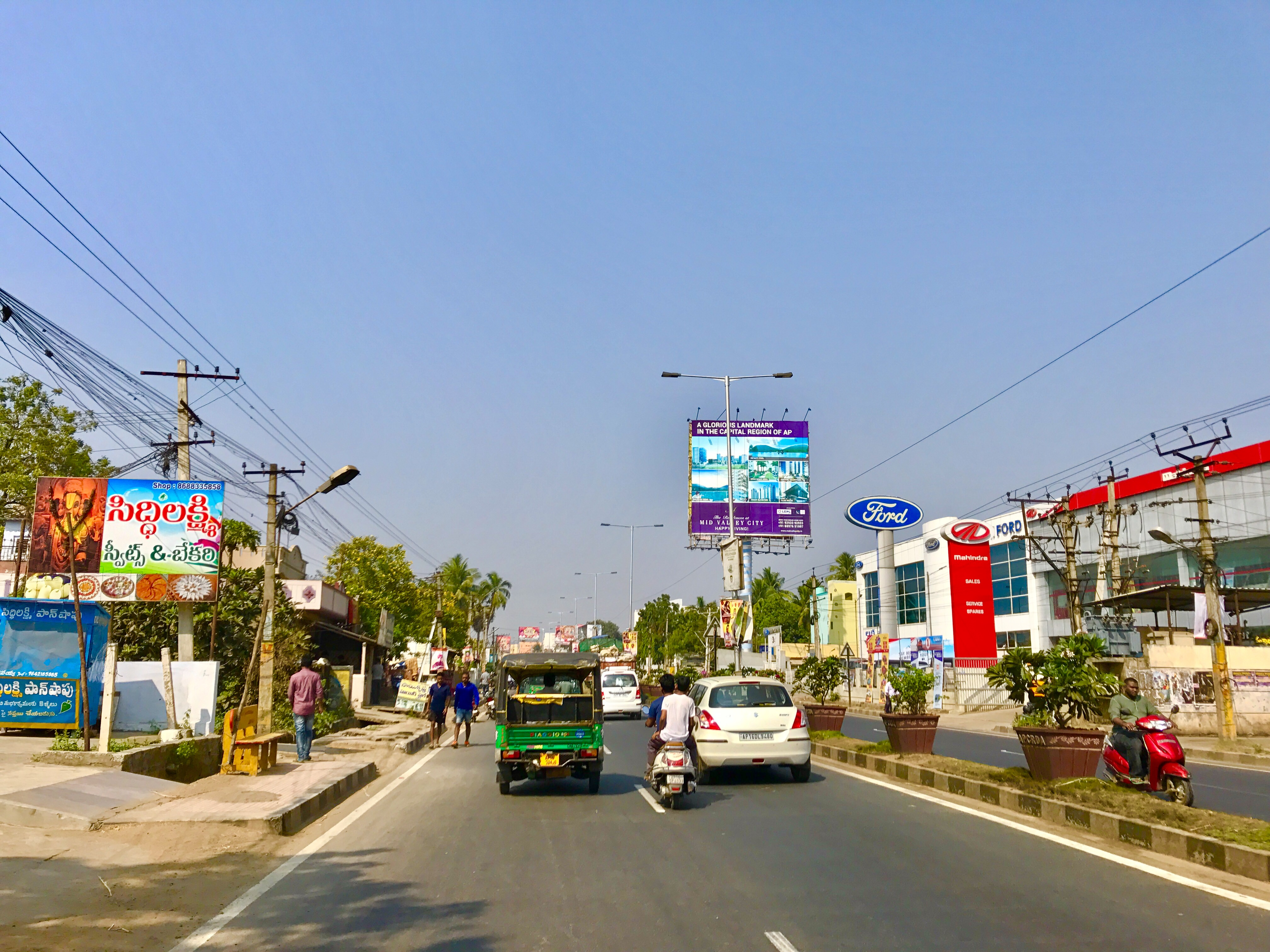 Asian Highway no-45 in Prasadampadu